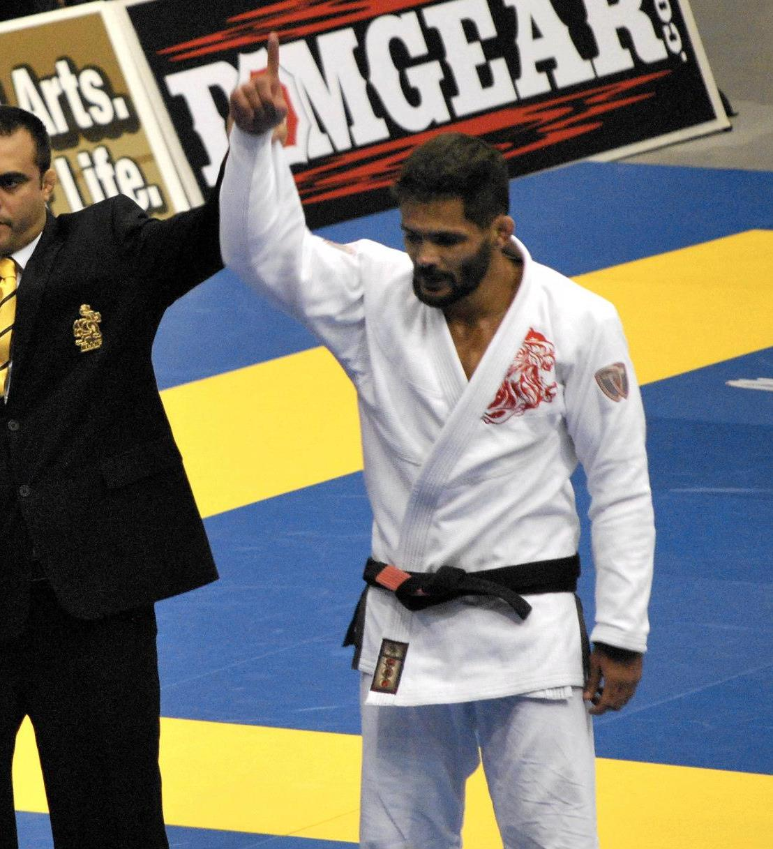 Cassio Werneck wins gold at the 2013 Pan Am Jiu Jitsu Championship.